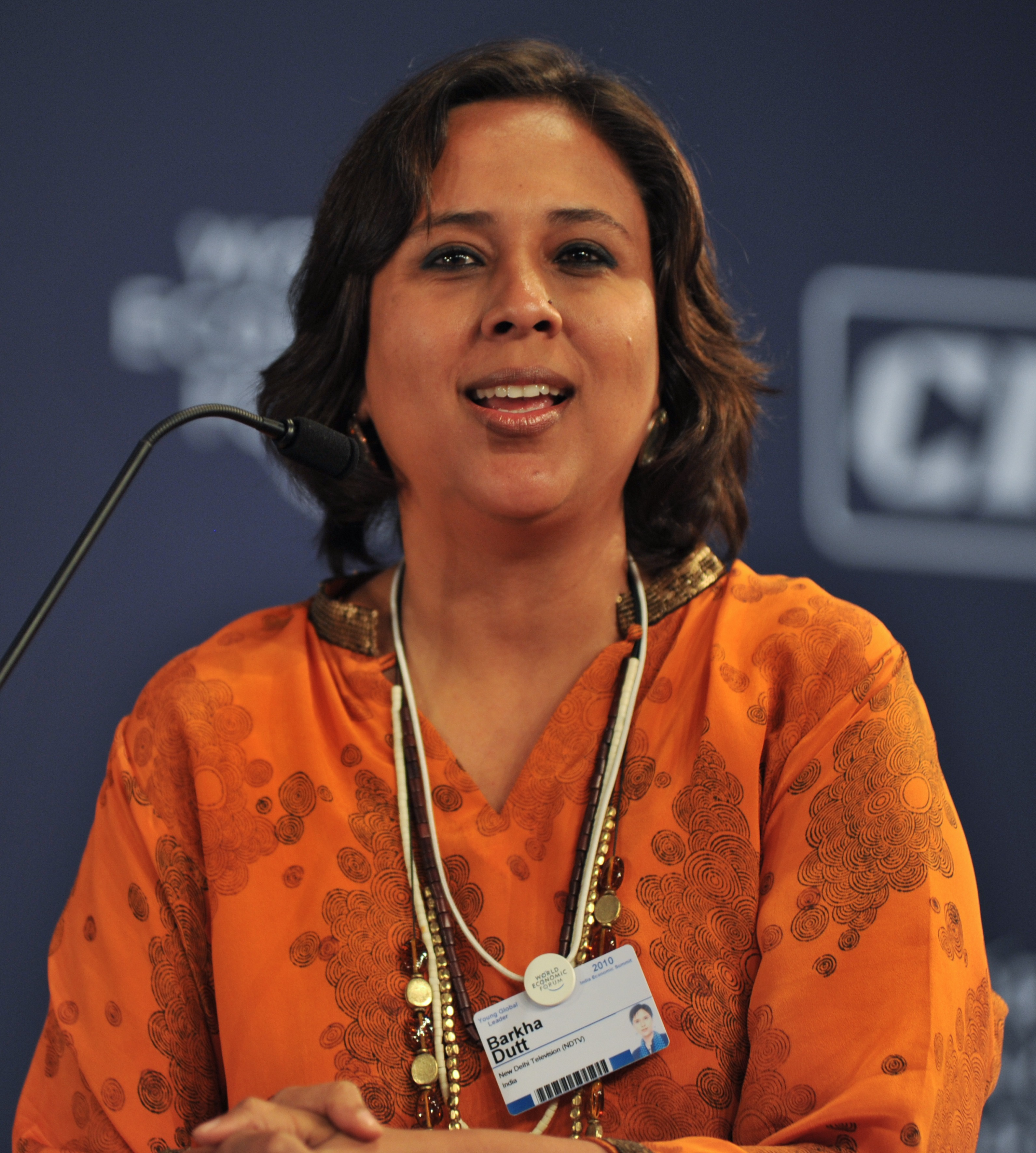 Barkha Dutt, editor, English News, New Delhi Television (NDTV), India, Young Global Leader, during the Closing Plenary; From Delhi To Davos: The Road to Inclusive Growth at the World Economic Forum's India Economic Summit 2010 held in New Delhi.